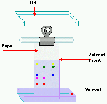 Diagram of a TLC (Thin Layer Chromatography) tank.